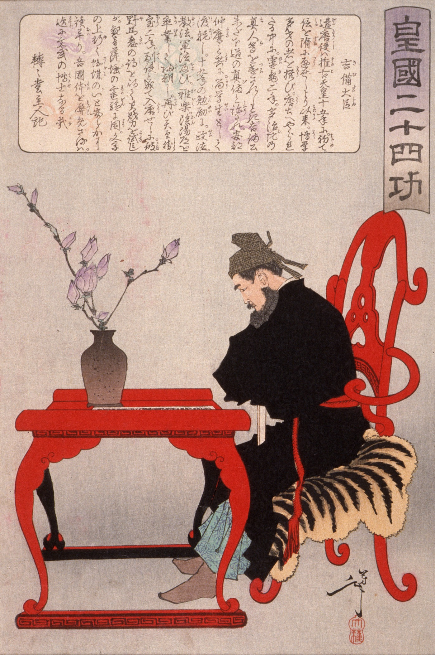 Japan, 12/1881 Series: Twenty-four Accomplishments in Imperial Japan Prints; woodcuts Color woodblock print (late impression) Herbert R. Cole Collection (M.84.31.239) Japanese Art